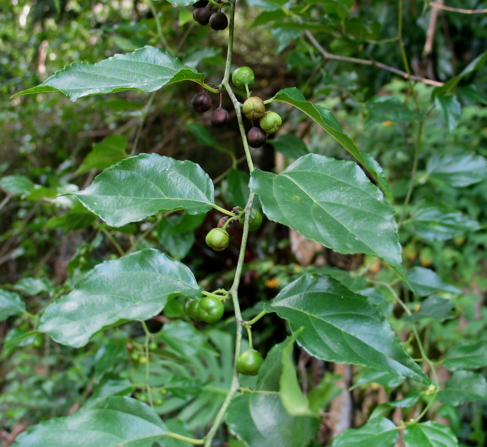 ʻĀnapanapa or Asiatic snakewood Rhamnaceae Indigenous to the Hawaiian Islands Waimea Valley, Oʻahu The common name "latherleaf" comes from the fact that the leaves are lathery when crushed and added to water used by early Hawaiians as a soap.